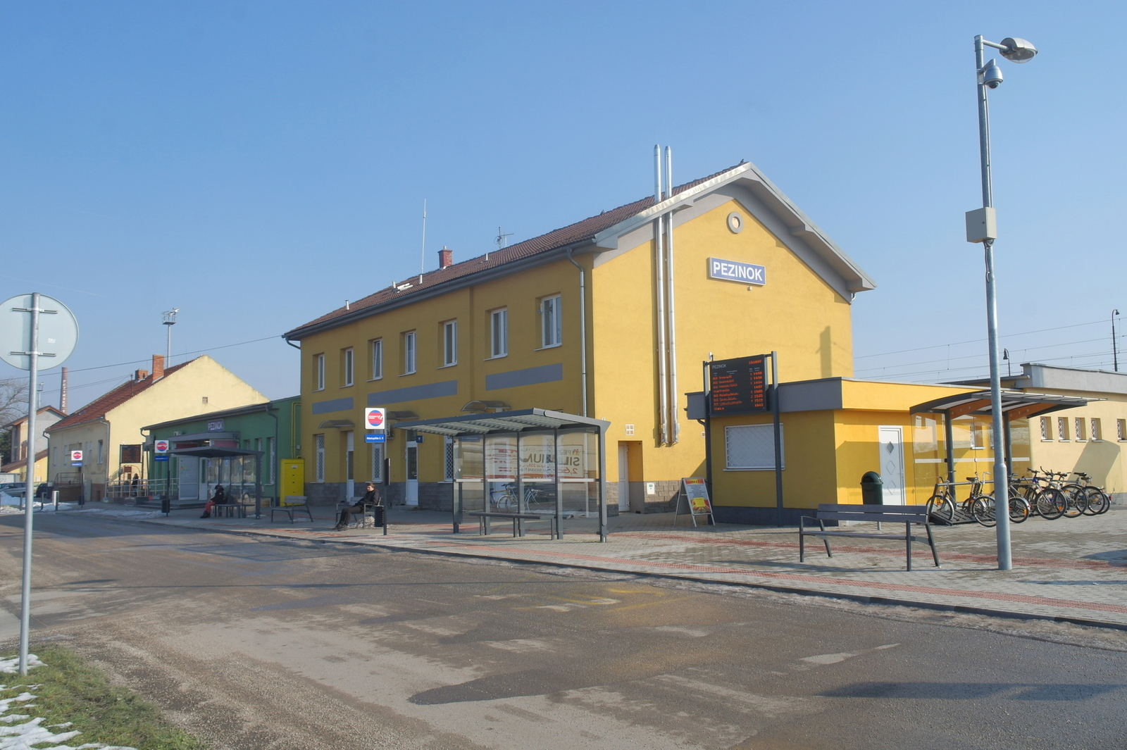 Railway station Pezinok, Holubyho street, Pezinok. Line no. 120 Bratislava-Žilina, historically part of Bratislava-Trnava horse railway (from 1841), the first in Hungary.